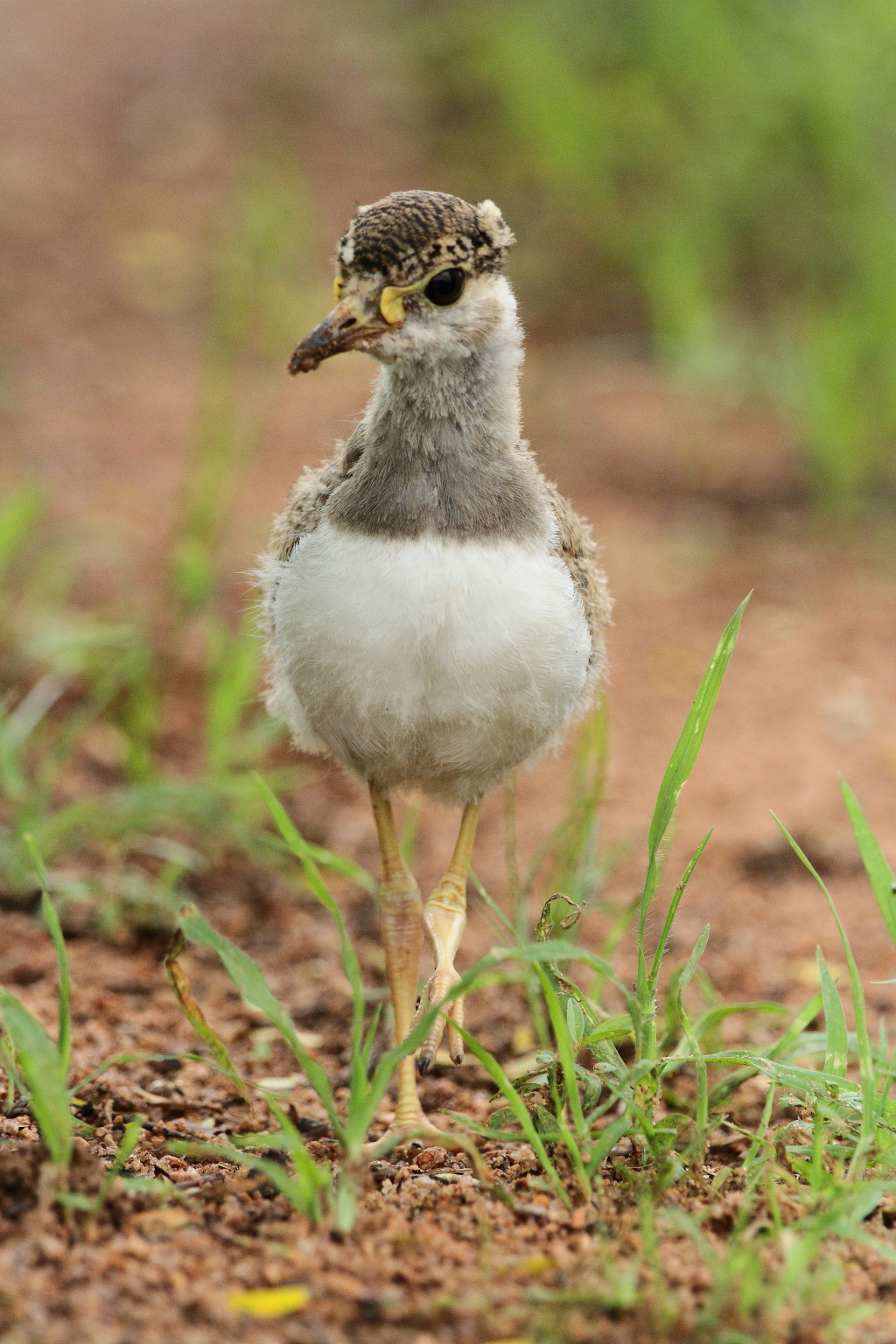 YELLOW-WATTLED LAPWING @ Ameenpur lake